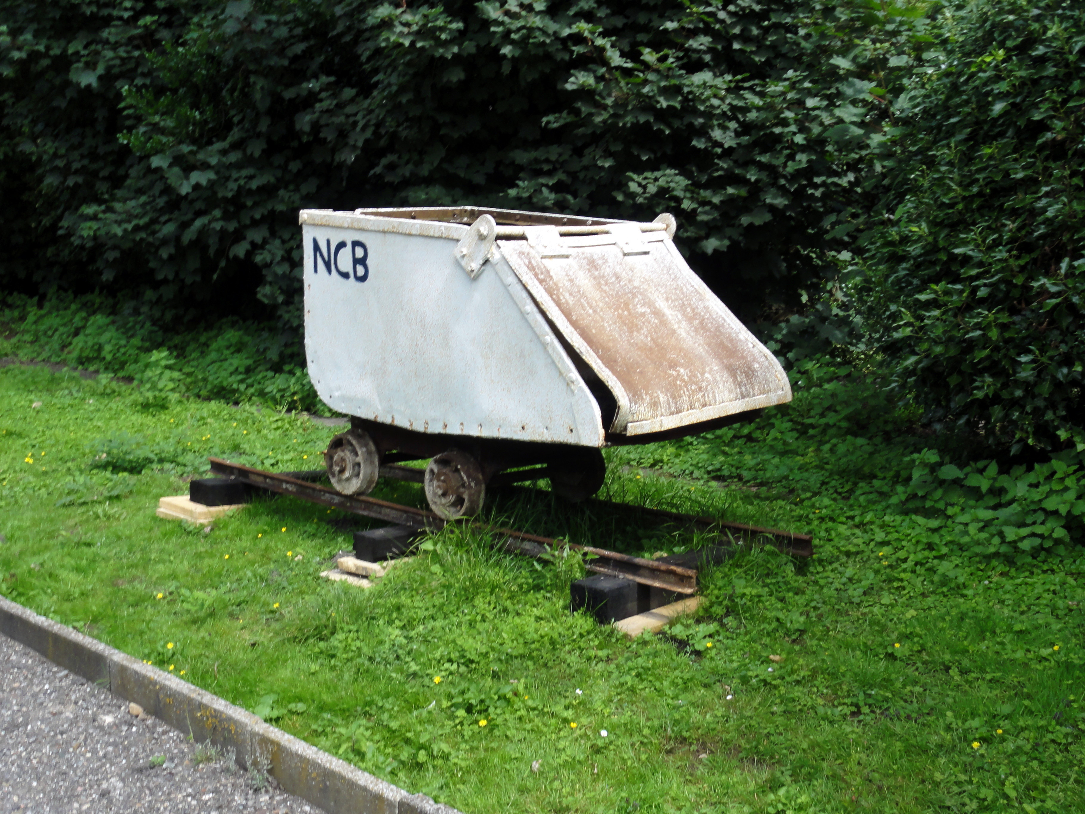 Shepherdswell, East Kent Railway